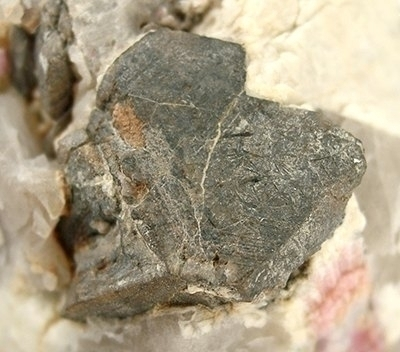 Schiavinatoite Locality: Antsongombato gem mine, FKT Antsentsindrano, Andrembesoa Commune, Betafo District, Vakinankaratra Region, Antananarivo Province, Madagascar (Locality at ) Size: 5.6 x 3.9 x 3.5 cm. This is a newly named (1999), extremely rare mineral from Madagascar. Embedded in quartz are sub-metallic, taupe-gray crystals to 2 cm in length. I obtained this in exchange from Dr. Pezzotta, who specializes in the minerals of Madagascar and I think could be safely considered the authority on finely crystallized rarities here. He told me these are among the largest fine crystals known for the species. I certainly have seen nothing comparable on the market, and for that matter you don't see much of it at all on the market.